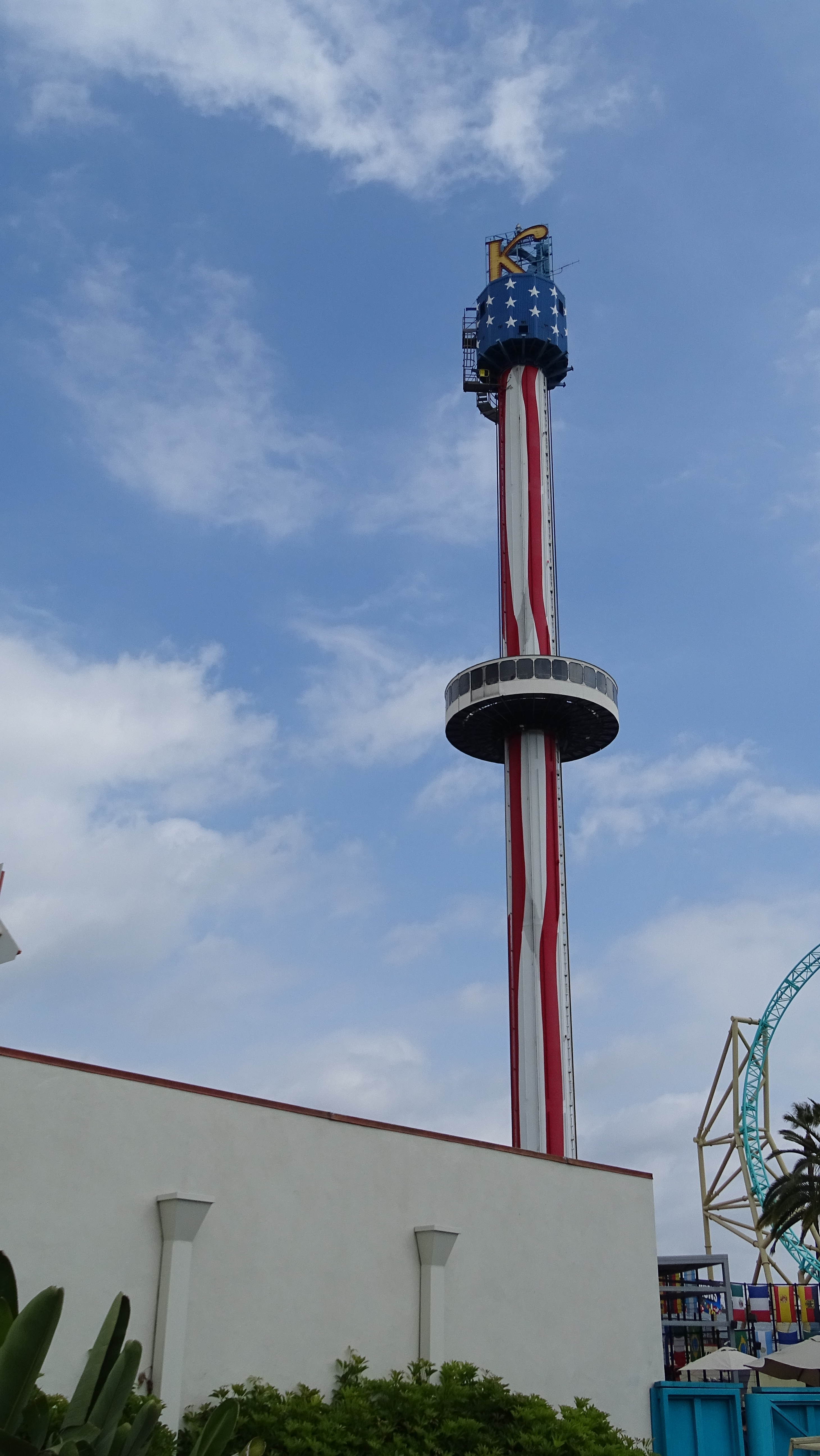 Sky Tower